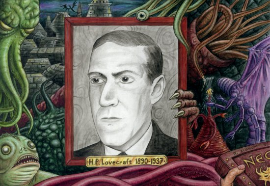 Howard Phillips Lovecraft surrounded by the creatures of the Cthulhu Mythos he invented.